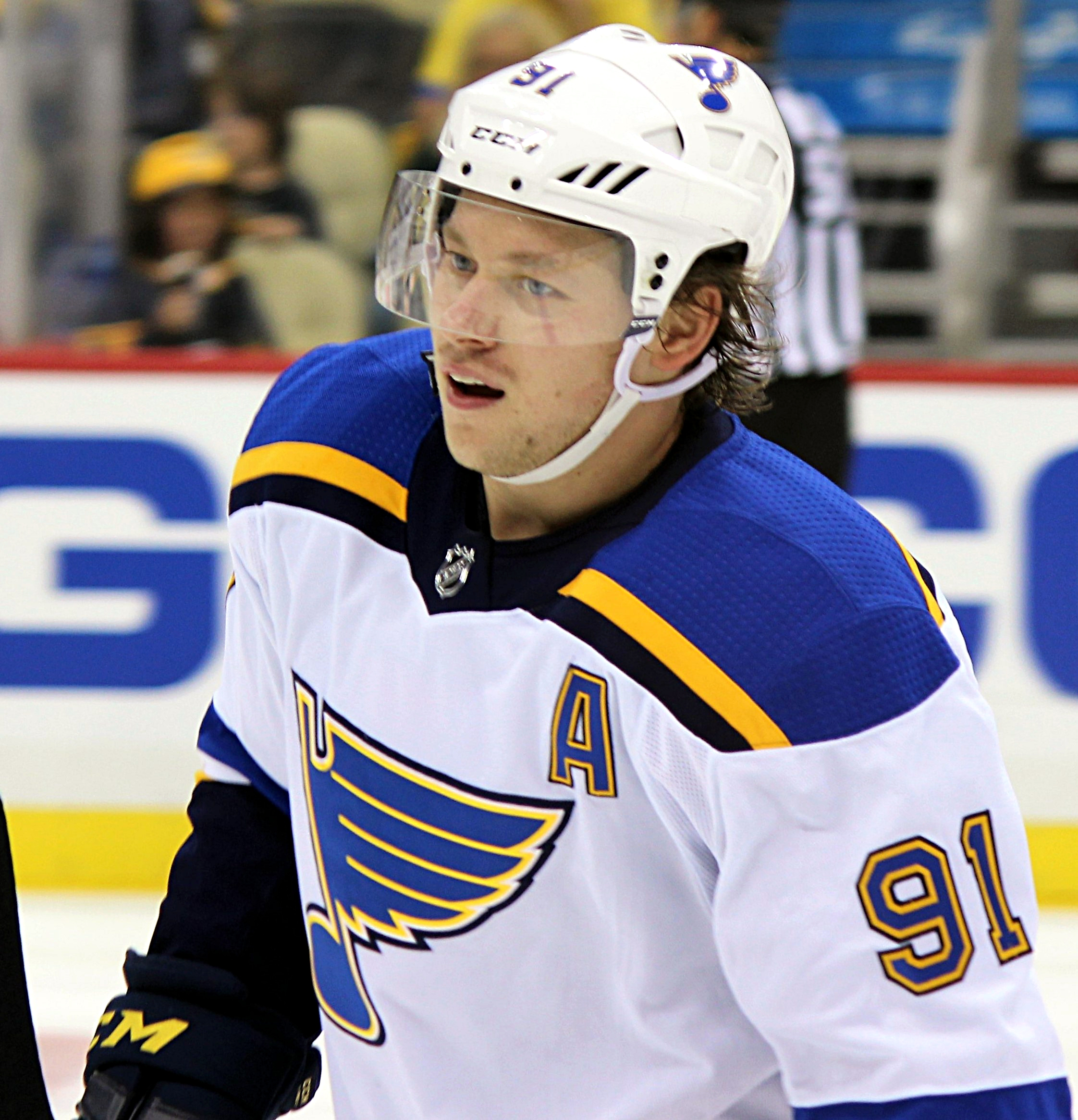 St. Louis Blues forward Vladimir Tarasenko during a game against the Pittsburgh Penguins, October 4, 2017, at PPG Paints Arena in Pittsburgh, PA.